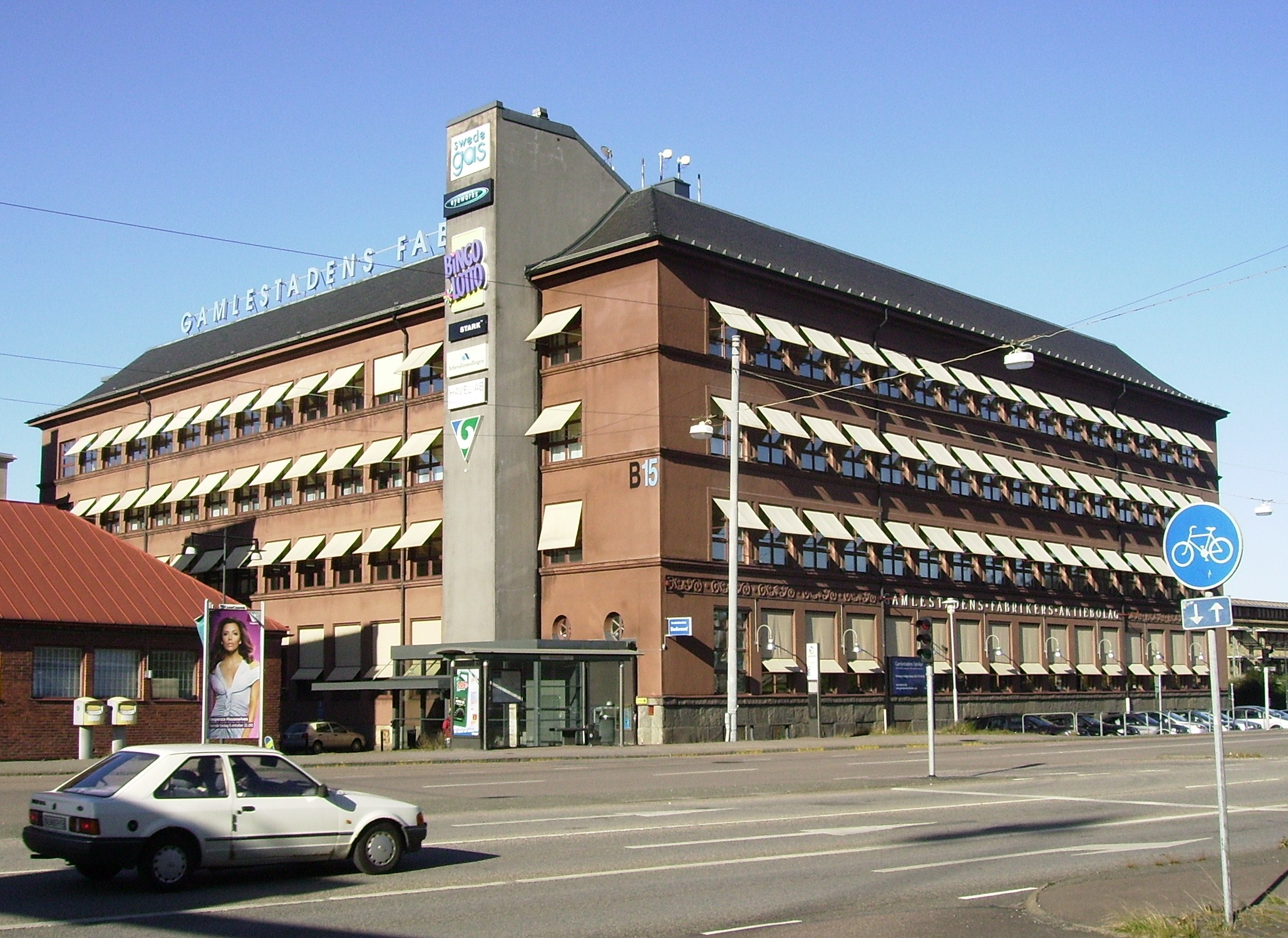 Picture of Gamlestadens Fabriker in Göteborg